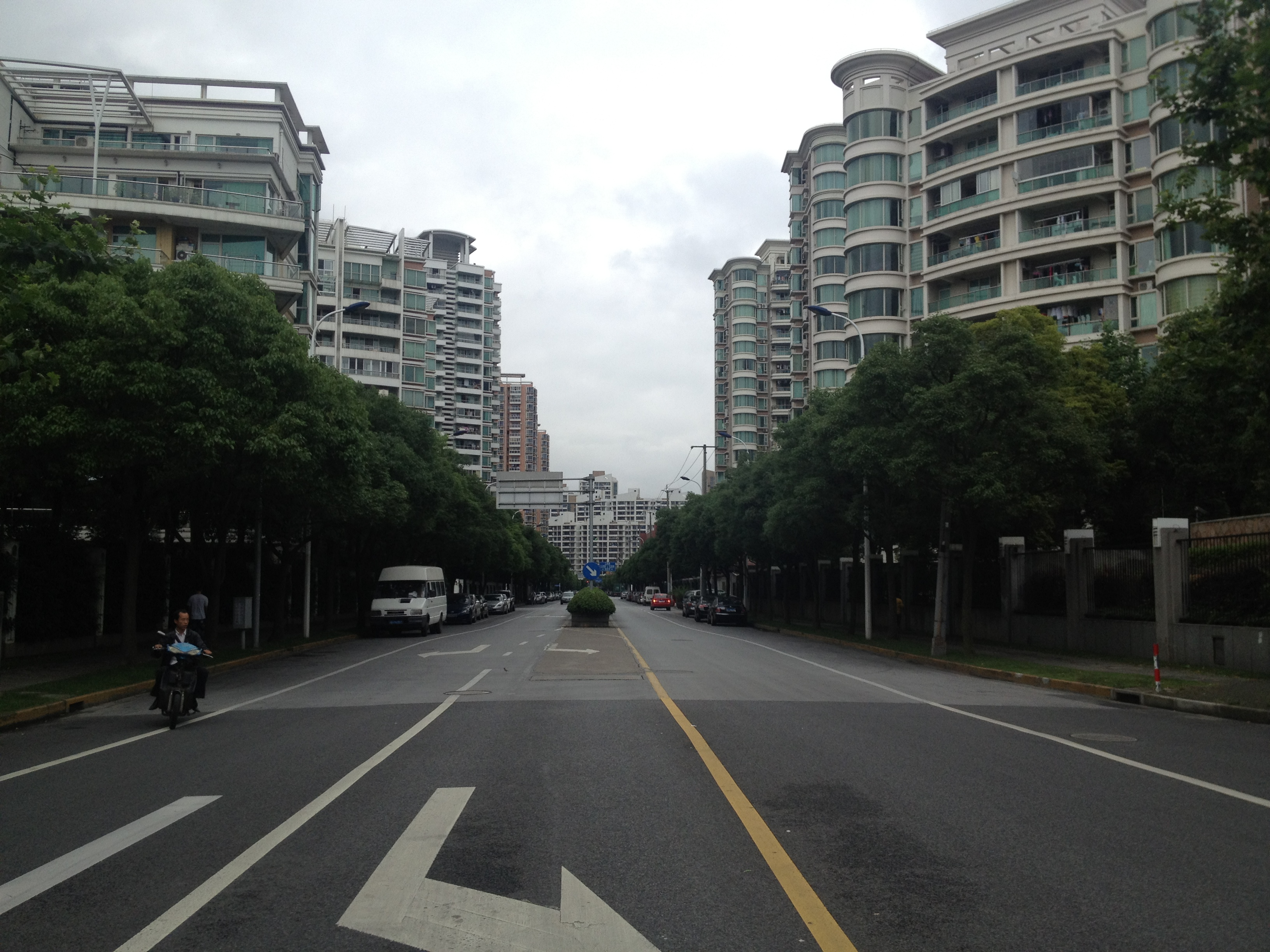 Jinsong Road Shanghai